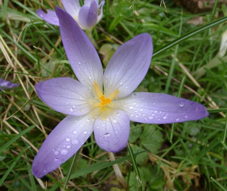 Unidentified Crocus